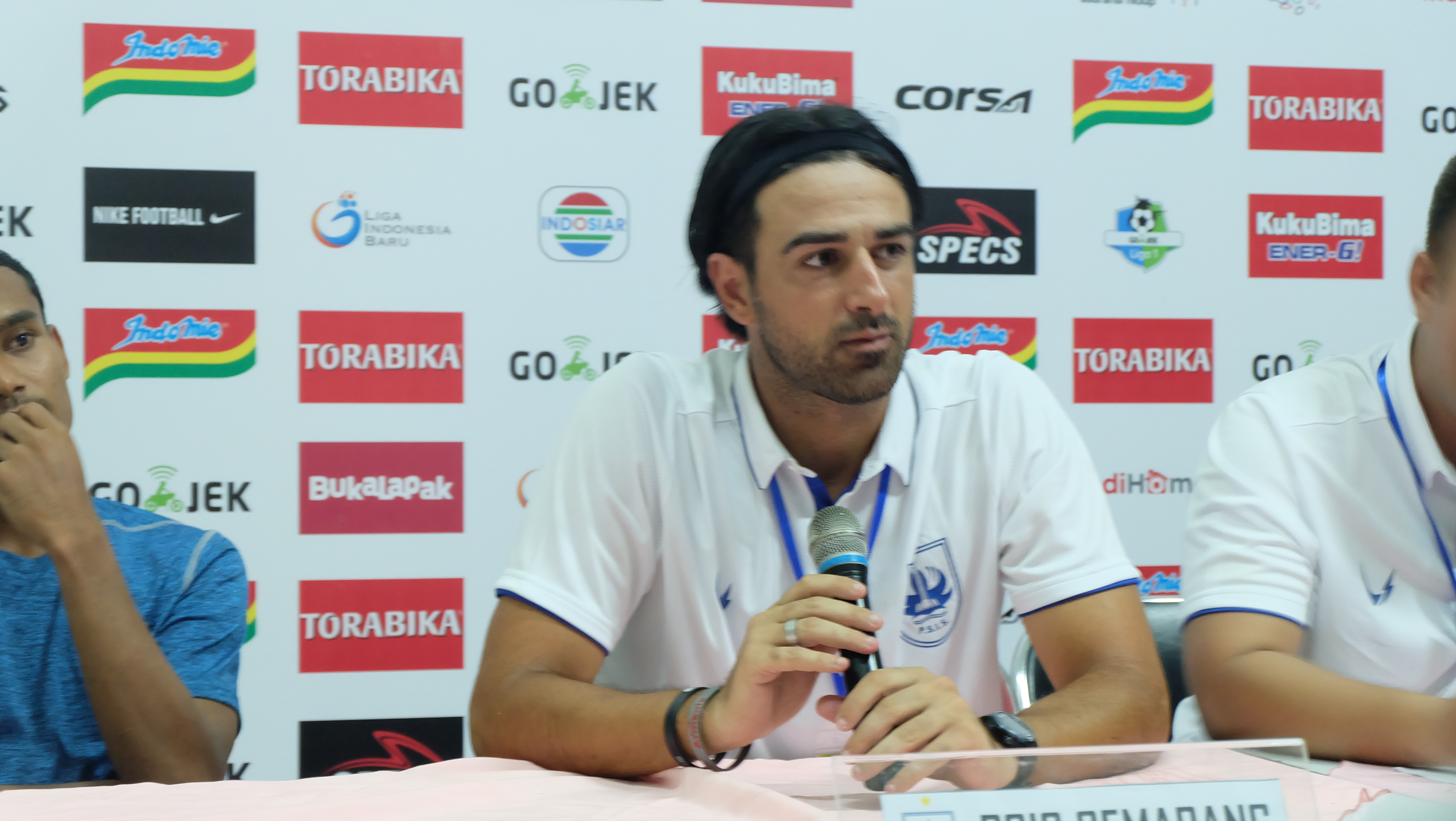 Press Conference after game versus PSMS Medan